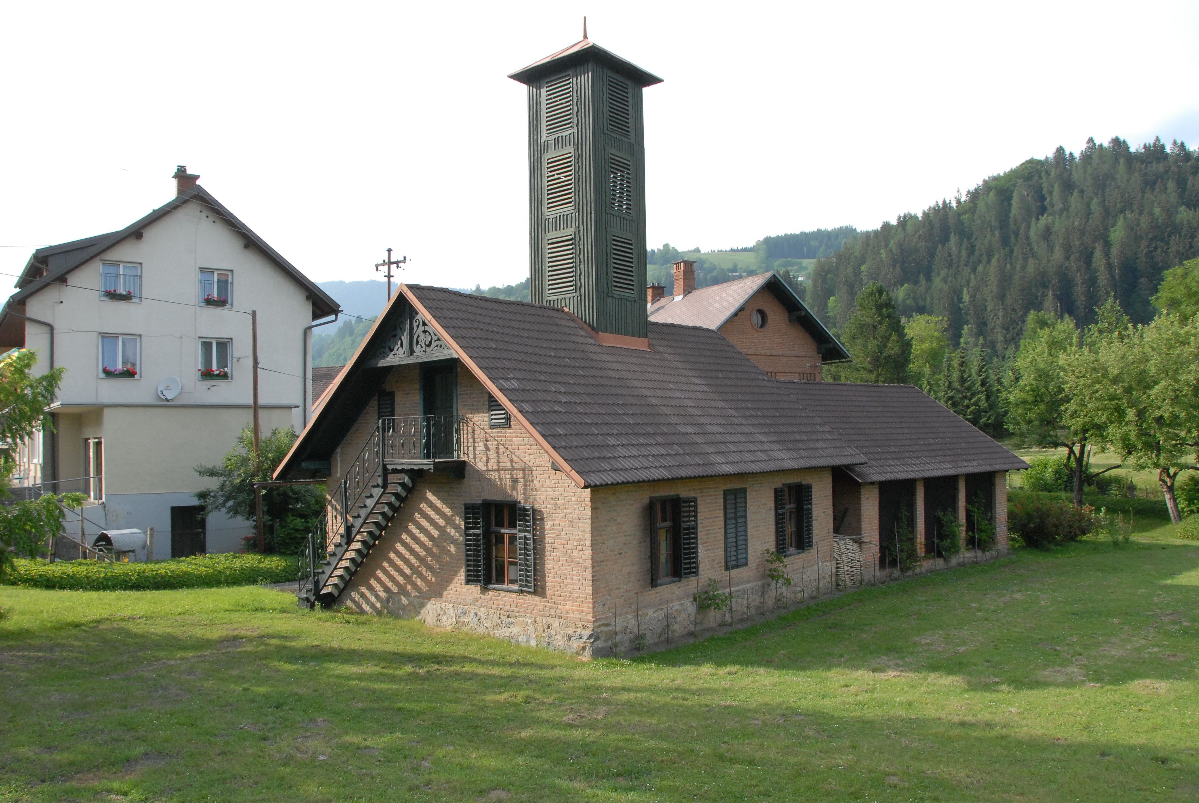 Iron manufacturing facility (historic) in the community Himmelberg, district Feldkirchen, Carinthia, Austria